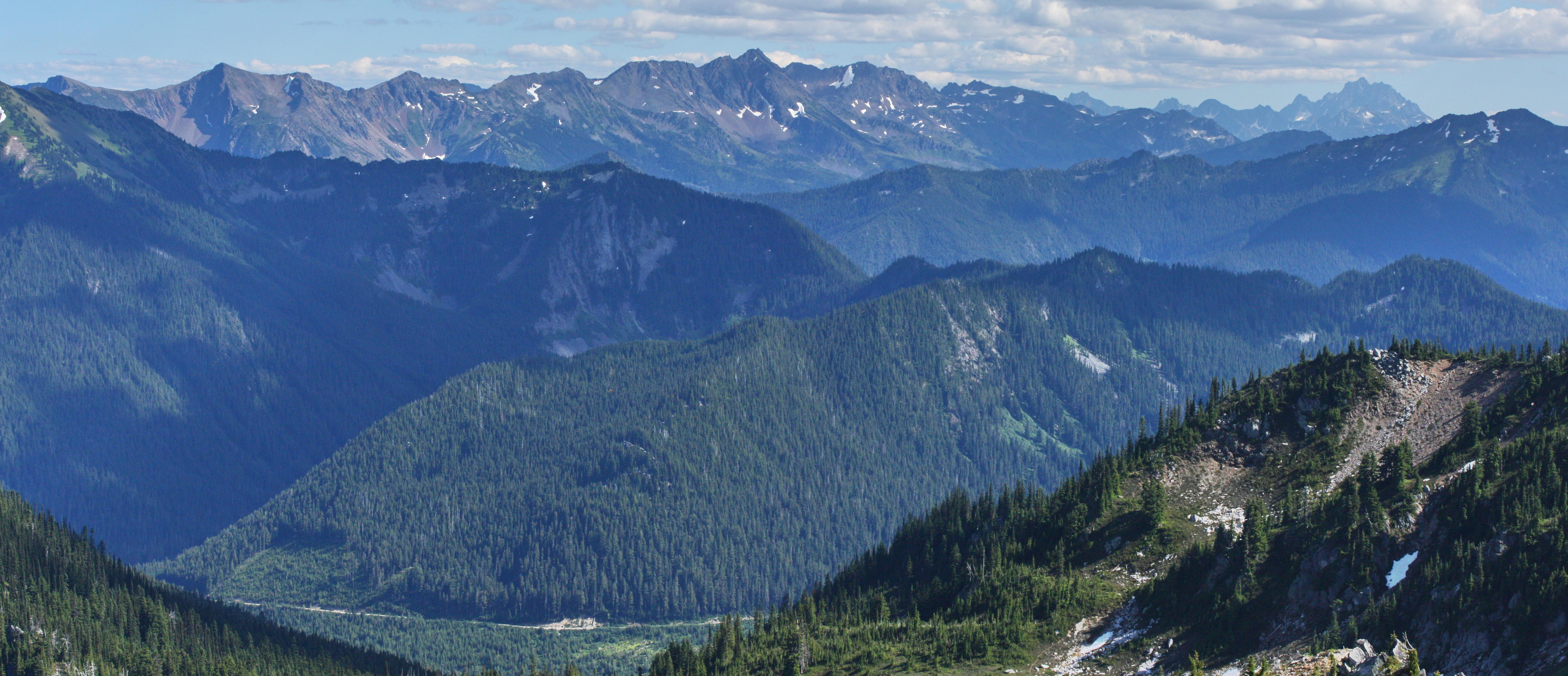 Chiwaukum Mountains (8081 feet, 2463 m, left skyline); Mount Stuart (9415 feet, 2870 m, right skyline)